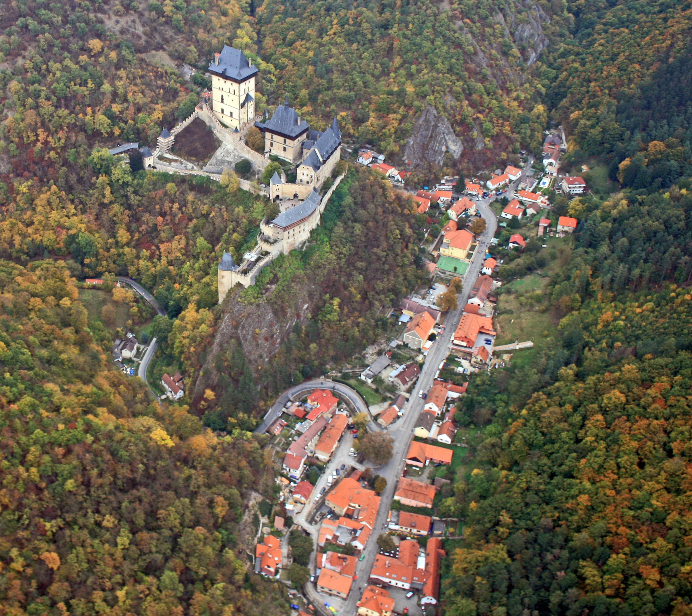 Air photo of Karlštejn Castle and part of village Karlštejn, middle Bohemia, Czech Republic